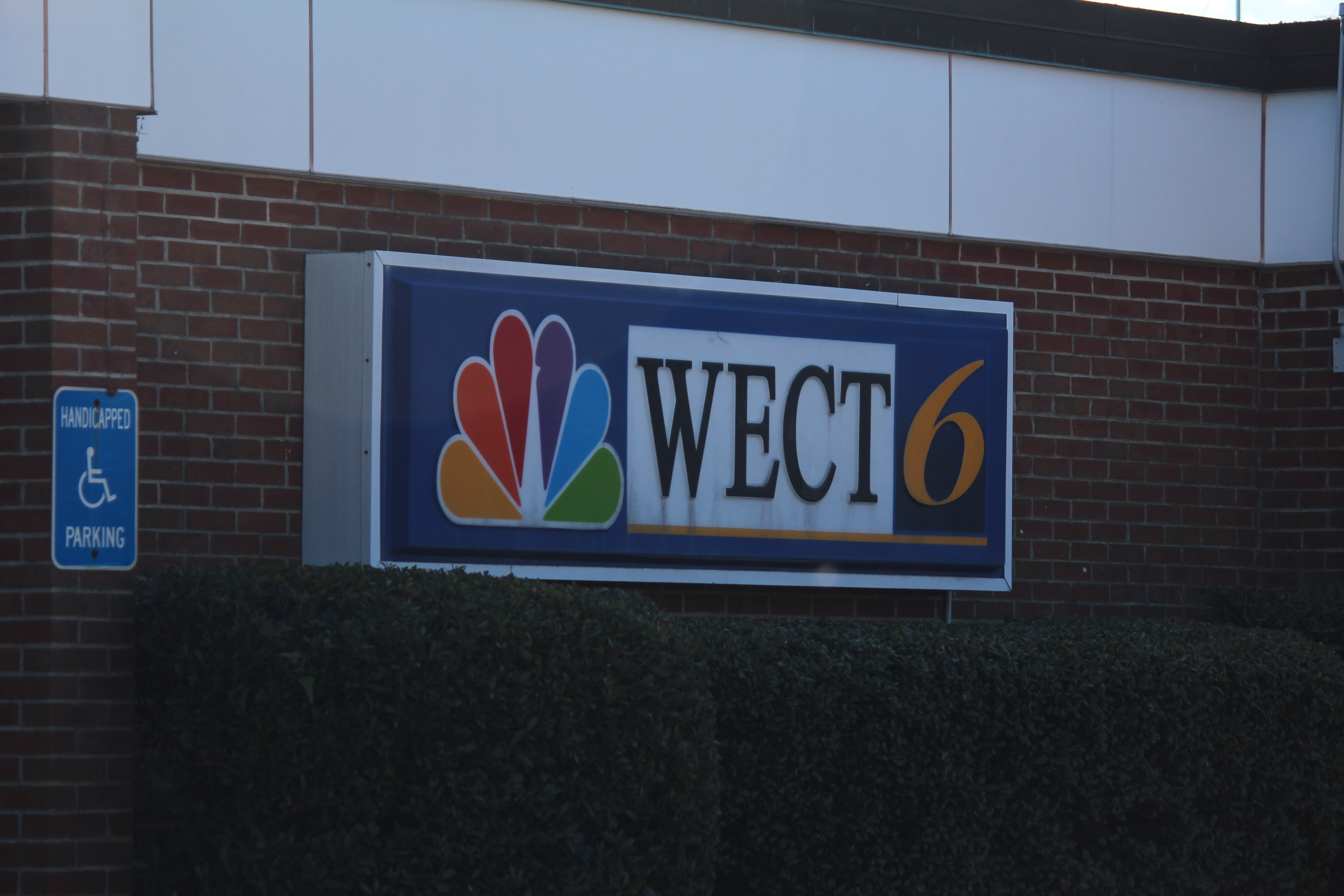 WECT, channel 6, is an NBC-affiliated television station located in Wilmington, North Carolina, USA.